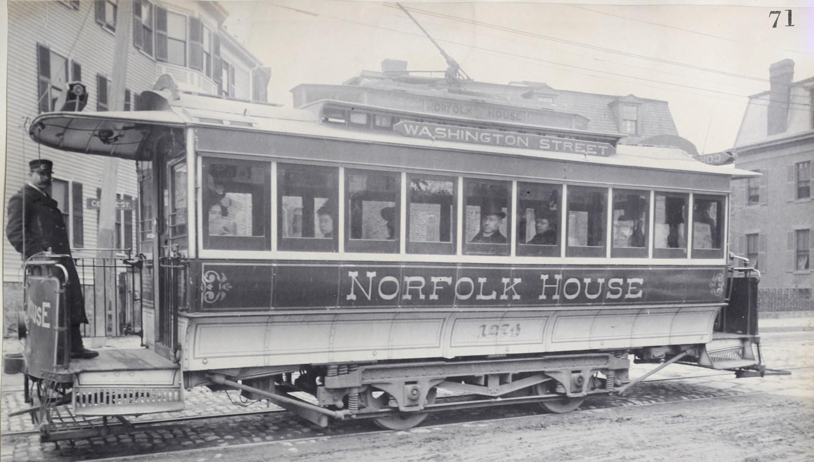 Title: Inventory of the West End Street Railway Company Year: 1897 (1890s) Authors: West End Street Railway Company Subjects: West End Street Railway Company Local transit--Massachusetts--Boston Metropolitan Area street railroads urban transit Publisher: West End Street Railway Company Text Appearing Before Image: NO. 2. Text Appearing After Image: '